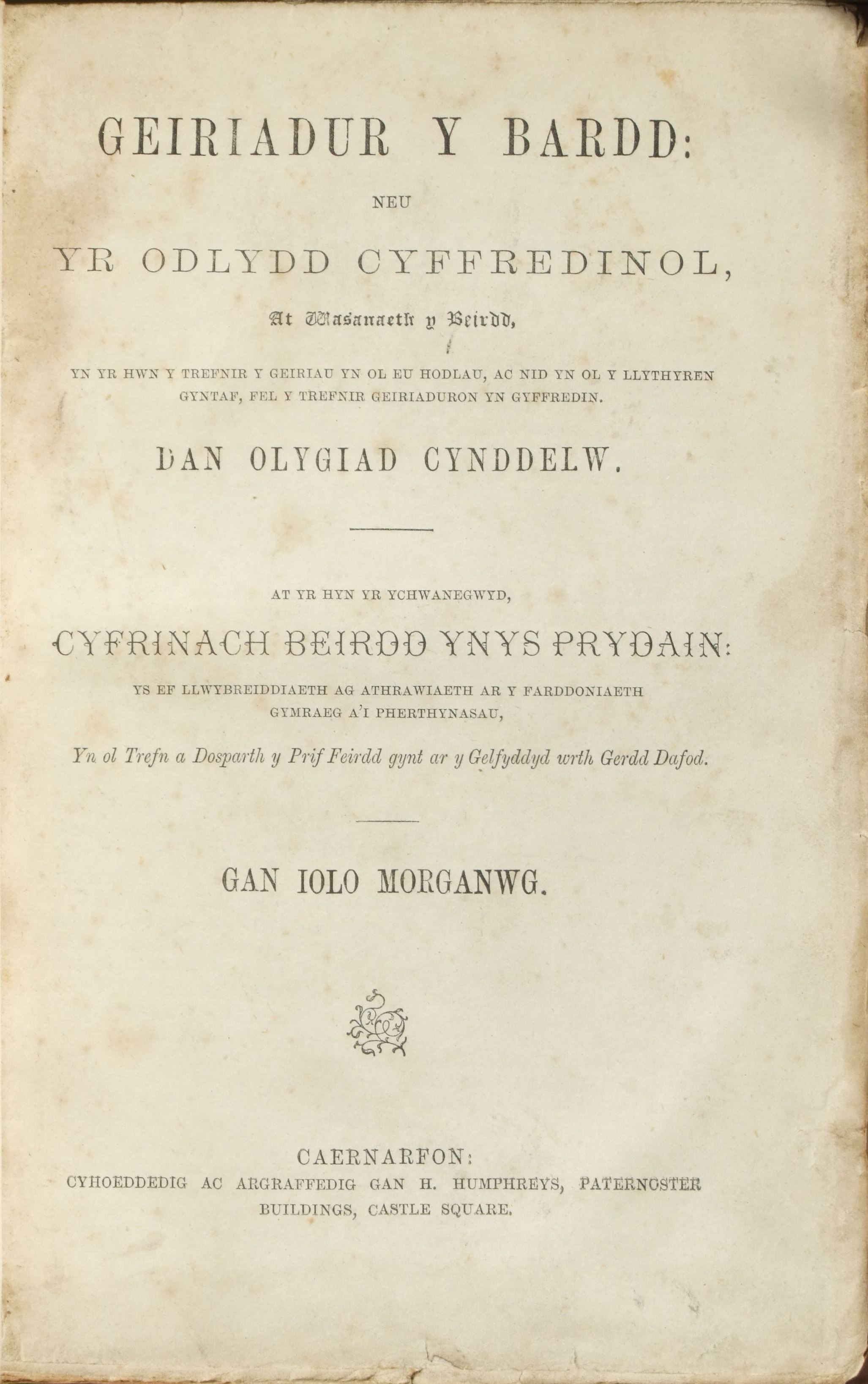 A combined edition of Geiriadur y Bardd by Robert Elis (Cynddelw) and Cyfrinach Beirdd Ynys Prydain by Iolo Morganwg (Caernarfon, no date = c.1870s). Iolo's bardic grammar was originally published in 1826 and includes some of his forgeries of medieval Welsh poems.